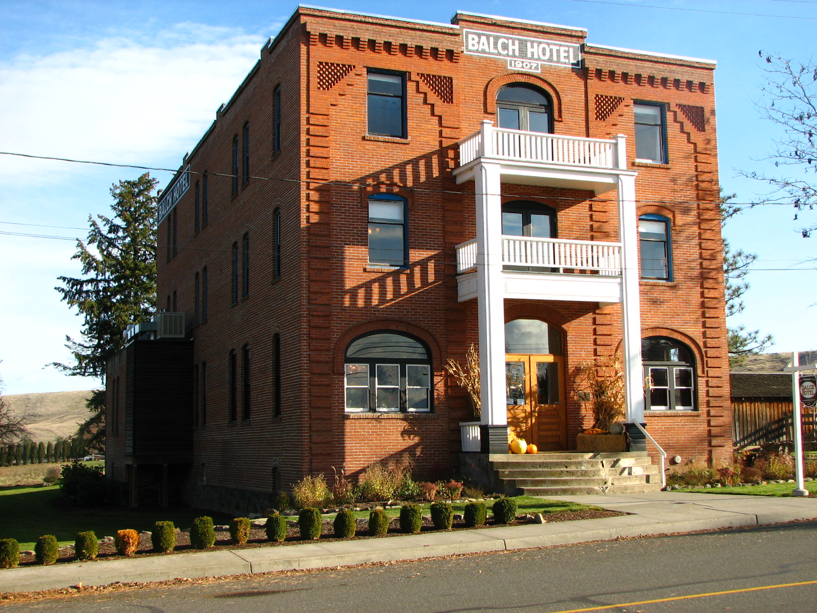 The historic Balch Hotel (built 1907), located at 40 South Main Street in Dufur, Oregon, United States, is listed on the US National Register of Historic Places (NRHP).